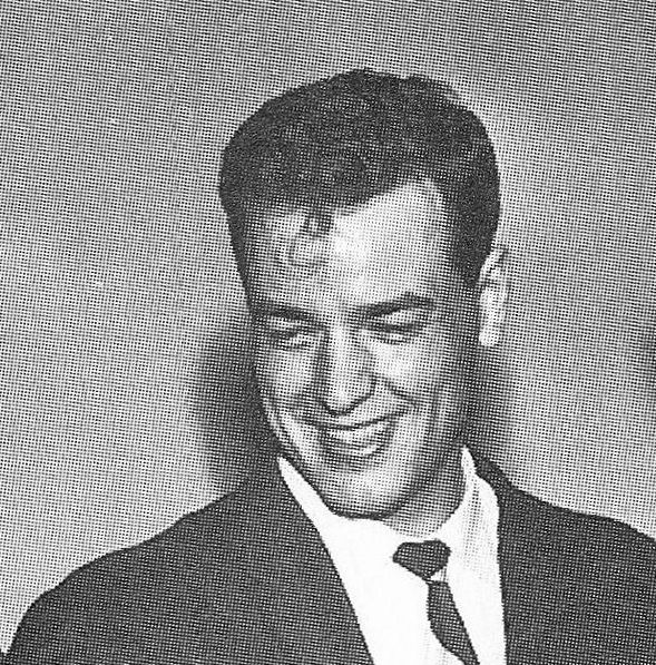 Ronnie Kranck